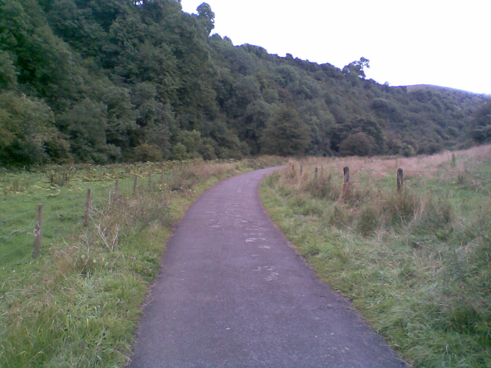 The Manifold Way near Wetton, looking south. Photo by me, released to Public Domain.